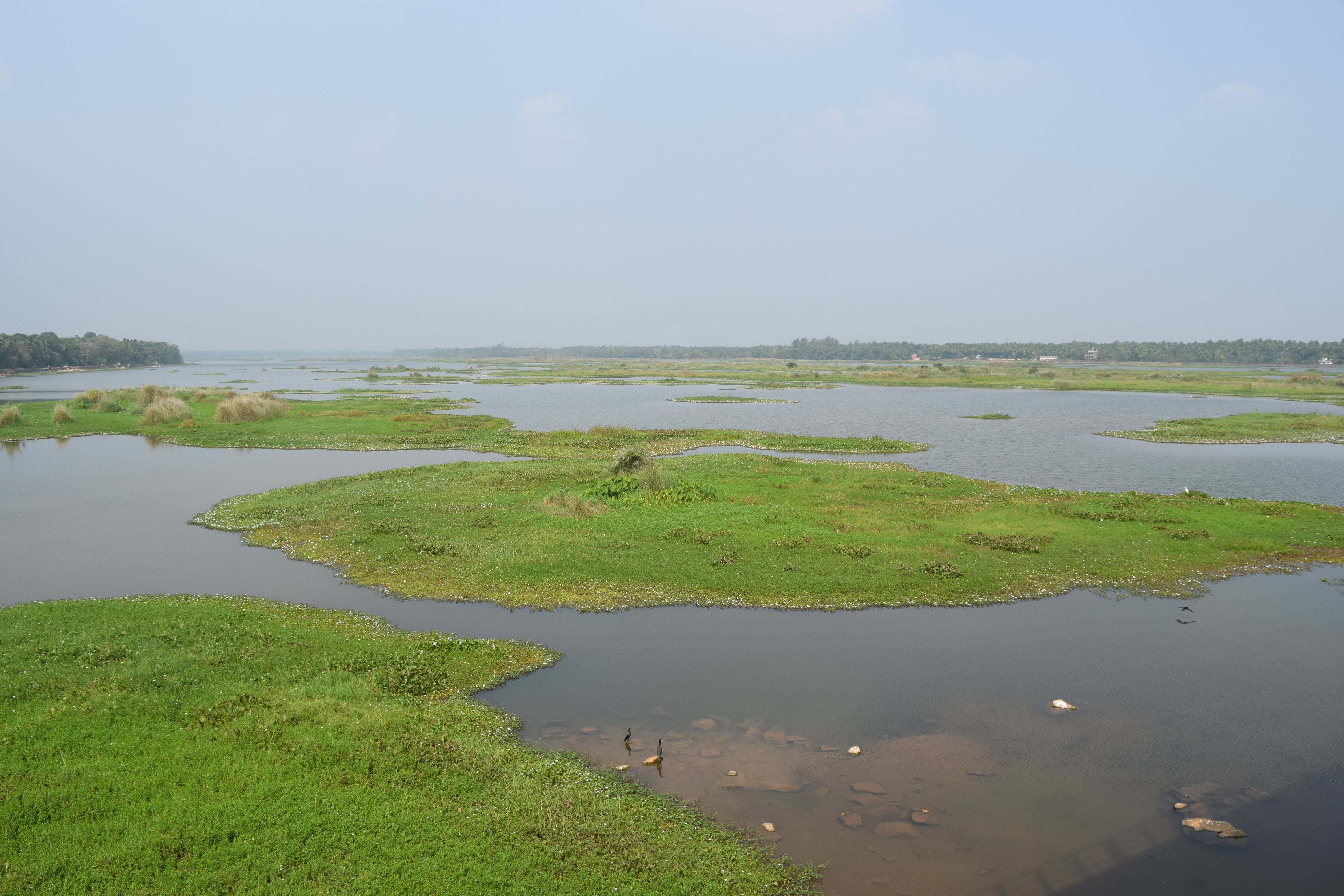 ഭാരതപ്പുഴ, Bharatha puzha, Nila River, Bharathappuzha (River of Bhārata), also known as the River Nila, is a river in India in the state of Kerala, second-longest river in Kerala, View From Chamravattom Bridge